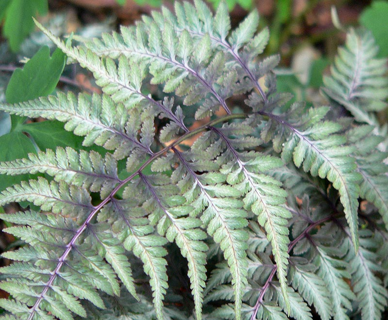 Photo of Athyrium niponicum var. 'pictum' at the VanDusen Botanical Garden in Vancouver